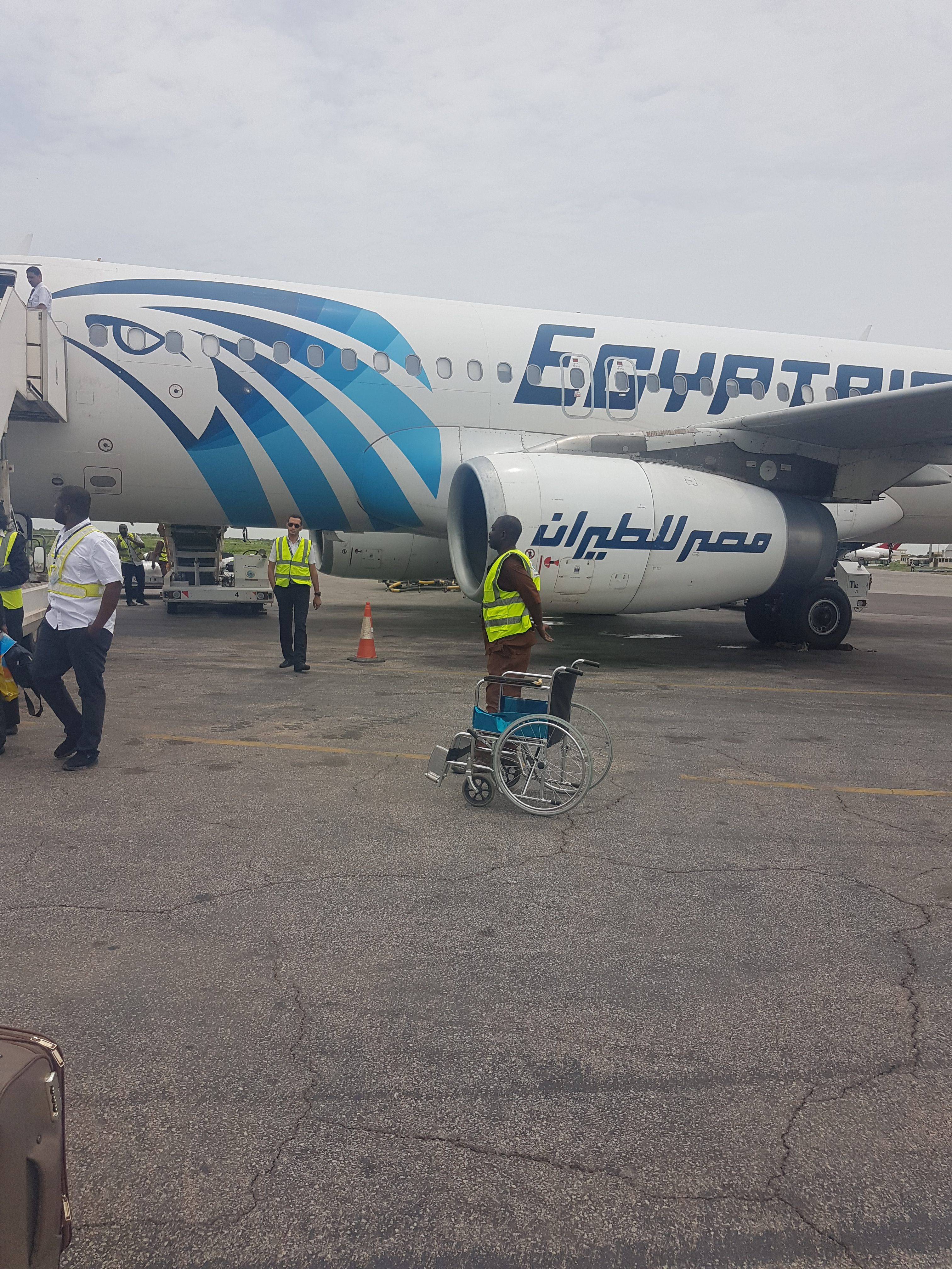 Avion de transport et pousse pouse à l'aéroport de N'Djamena This is an image with the theme "Africa on the Move or Transport" from: Chad